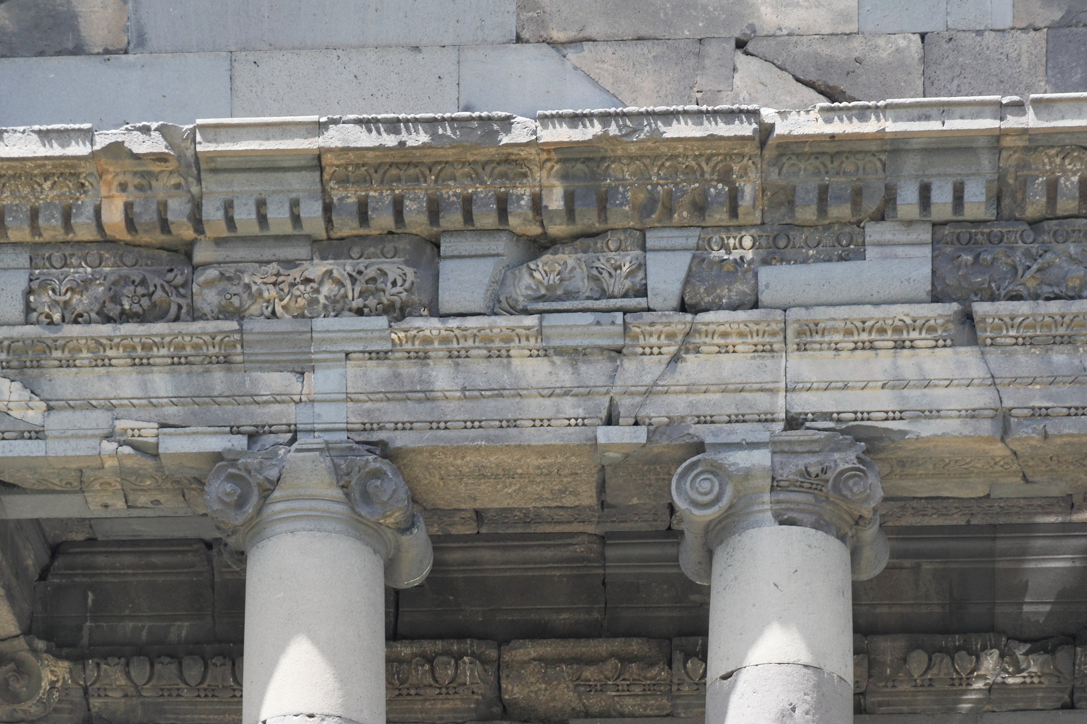 Temple of Garni. Garni, Kotayk Province, Armenia.